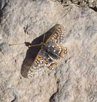 Quino checkerspot (Euphydryas editha quino) male